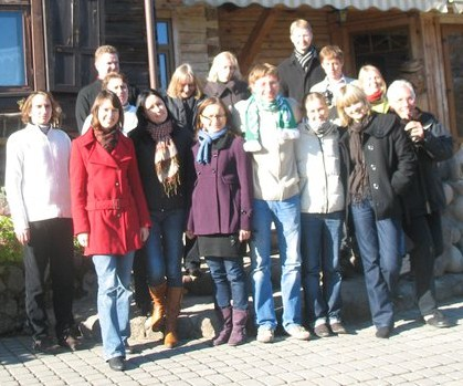 DBU Alumni in LT